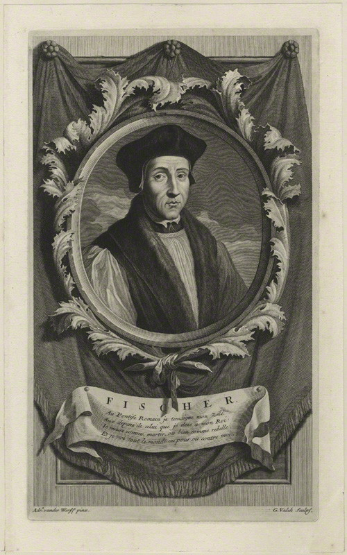 Portrait of John Fisher